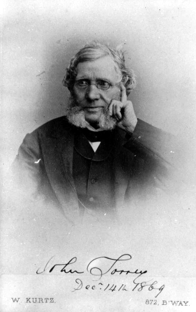 John Torrey in 1869 (W. Kurtz - 872 Broadway)